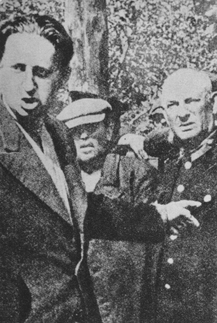 Volksdeutscher (de: ethnic German) identifying a Pole - an alleged participant in the events of so-called "Blody Sunday in Bydgoszcz" (de: Bromberger Blutsonntag). In the first days of September 1939 Poles denounced in such way were usually shot on the spot. This photo was taken in the artillery barracks at 147 Gdańska Street in Bydgoszcz.